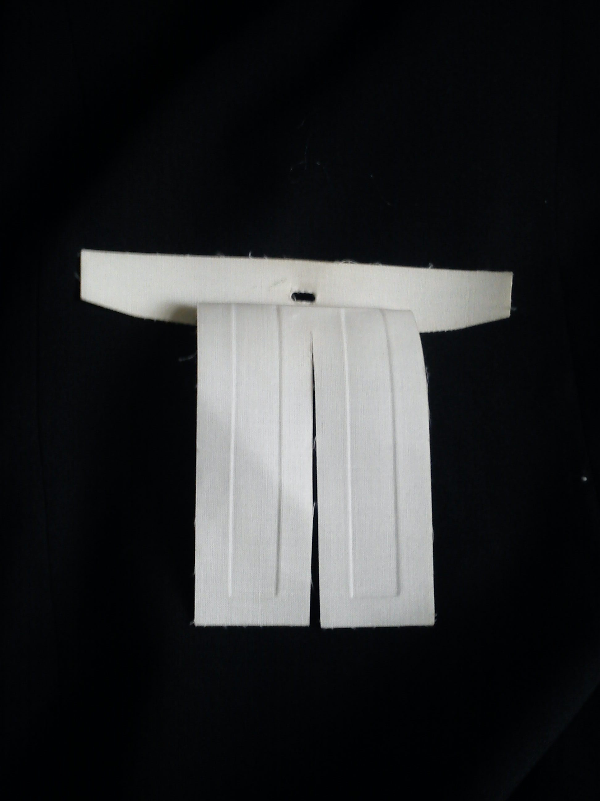 white clothes for neck